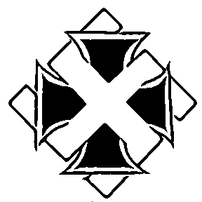 Patch (tattoo) insignia for the Soldiers of Aryan Culture, an iron cross with an interwoven swastika.